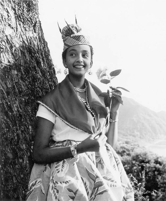 Description: "Edith Bellot wearing the traditional costume of Dominica, based on French eighteenth century fashion". British official photograph taken for the Central Office of Information. Date: March 1961 Our Catalogue Reference: INF 10/379 This image is from the collections of The National Archives. Feel free to share it within the spirit of the Commons. For high quality reproductions of any item from our collection please contact our image library.